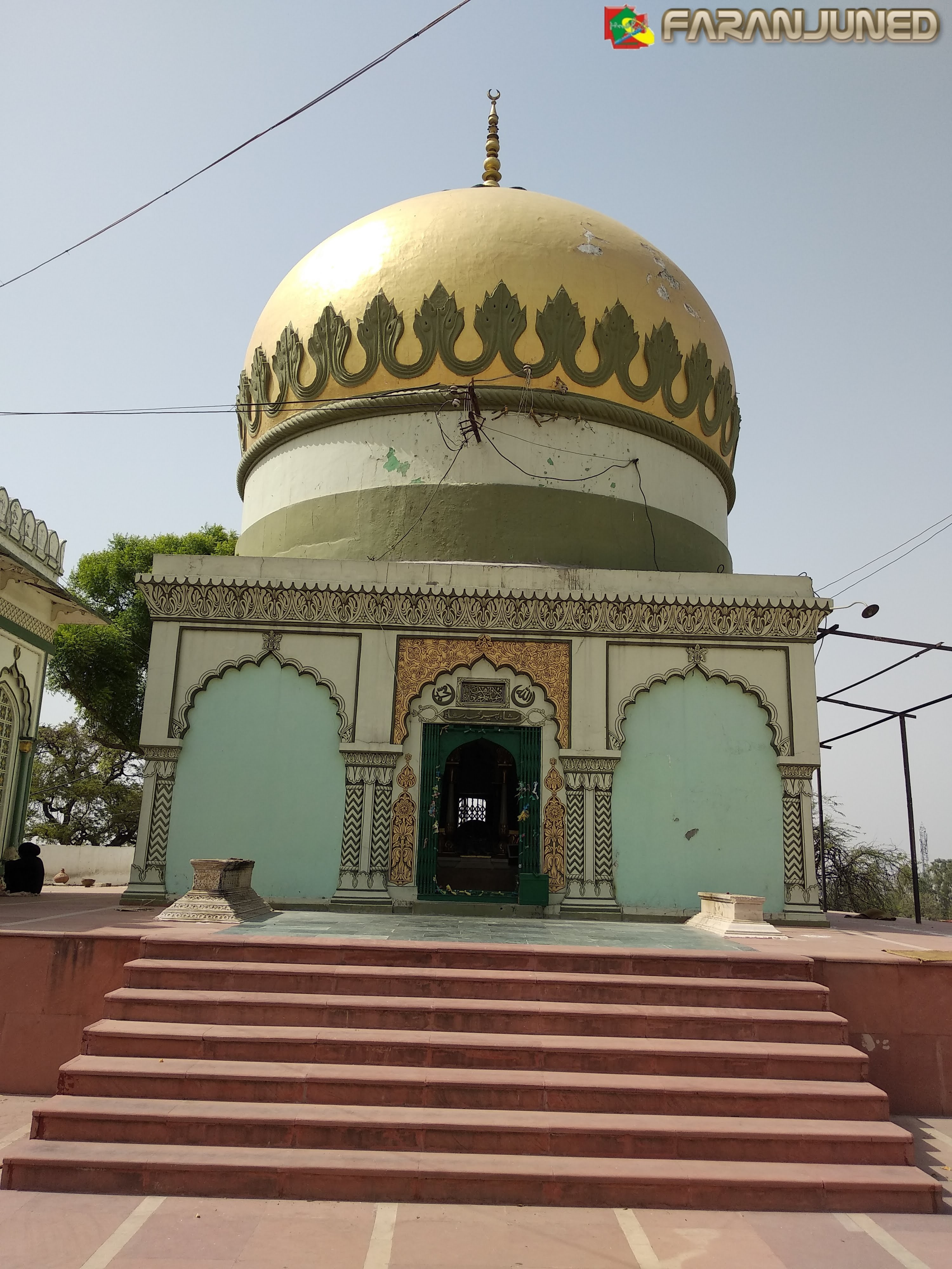 Tomb of Shah Peer Mohammad Lakhnawi at Teele Wali Masjid Lucknow